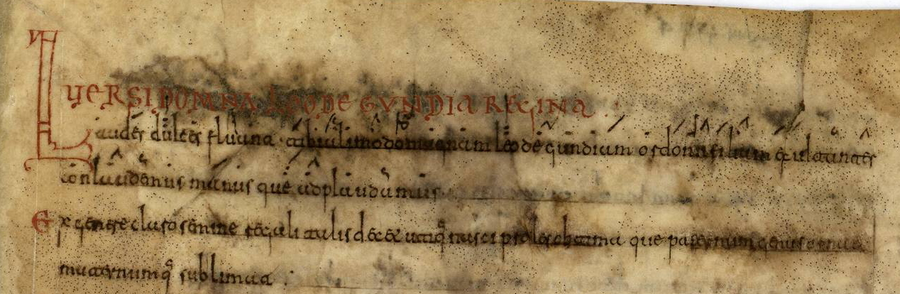 Chant to Leodegundia, Roda Codex, front page, beginning with musical notations on 1st verses. Verse initials also form an acrostic.